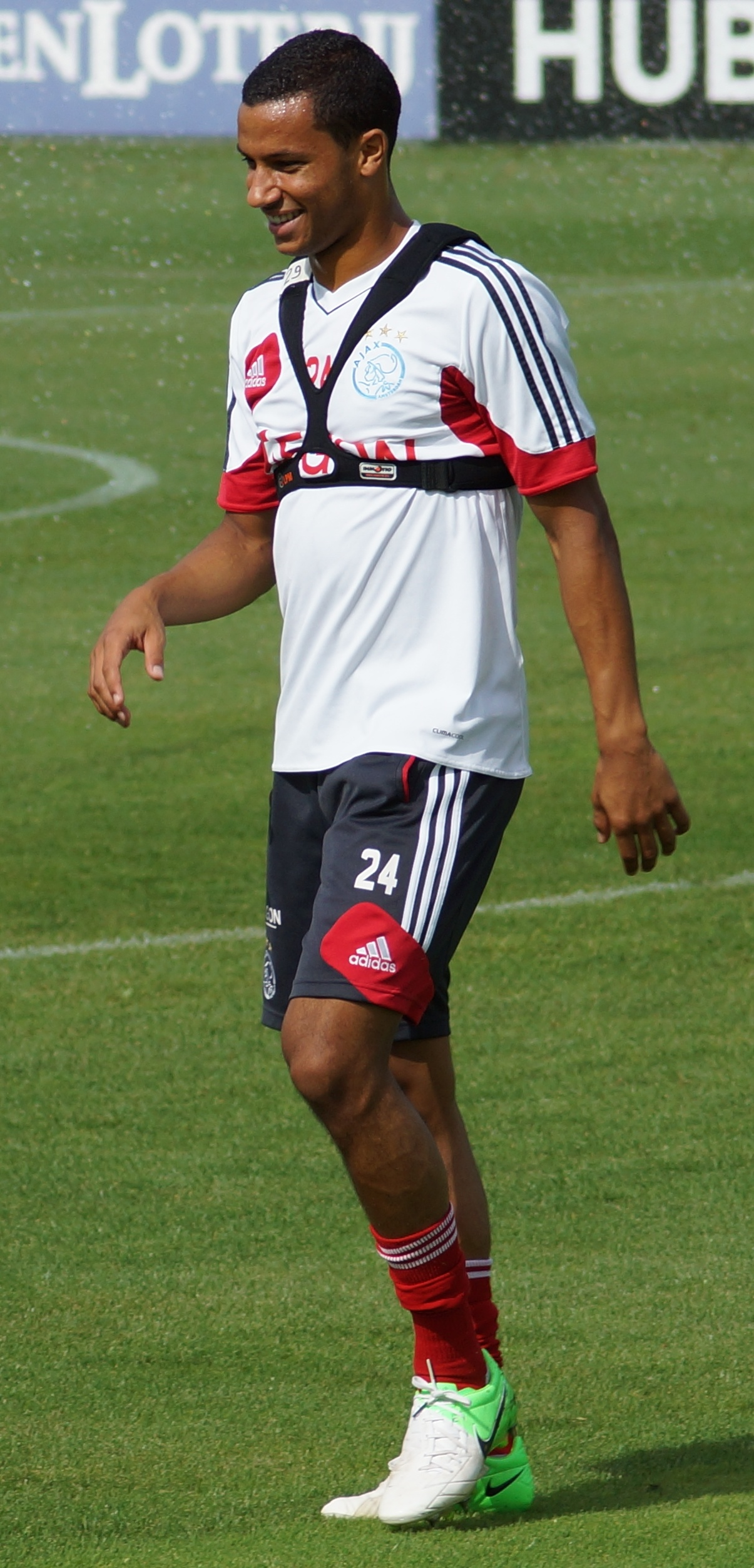 Ricardo van Rhijn, player of AFC Ajax